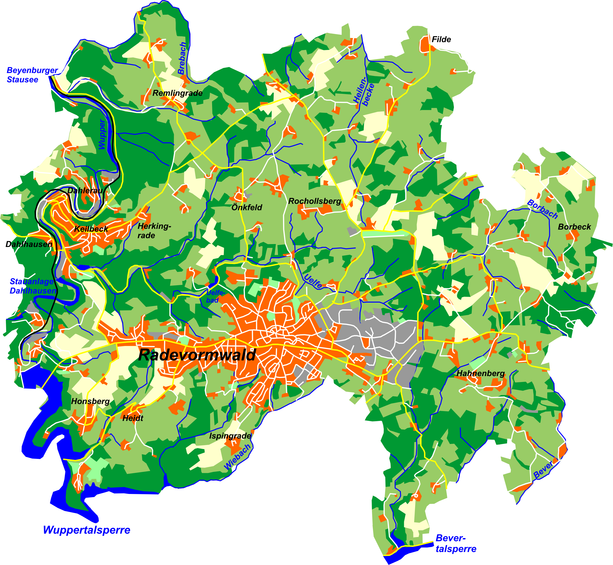 Map of Radevormwald, Germany